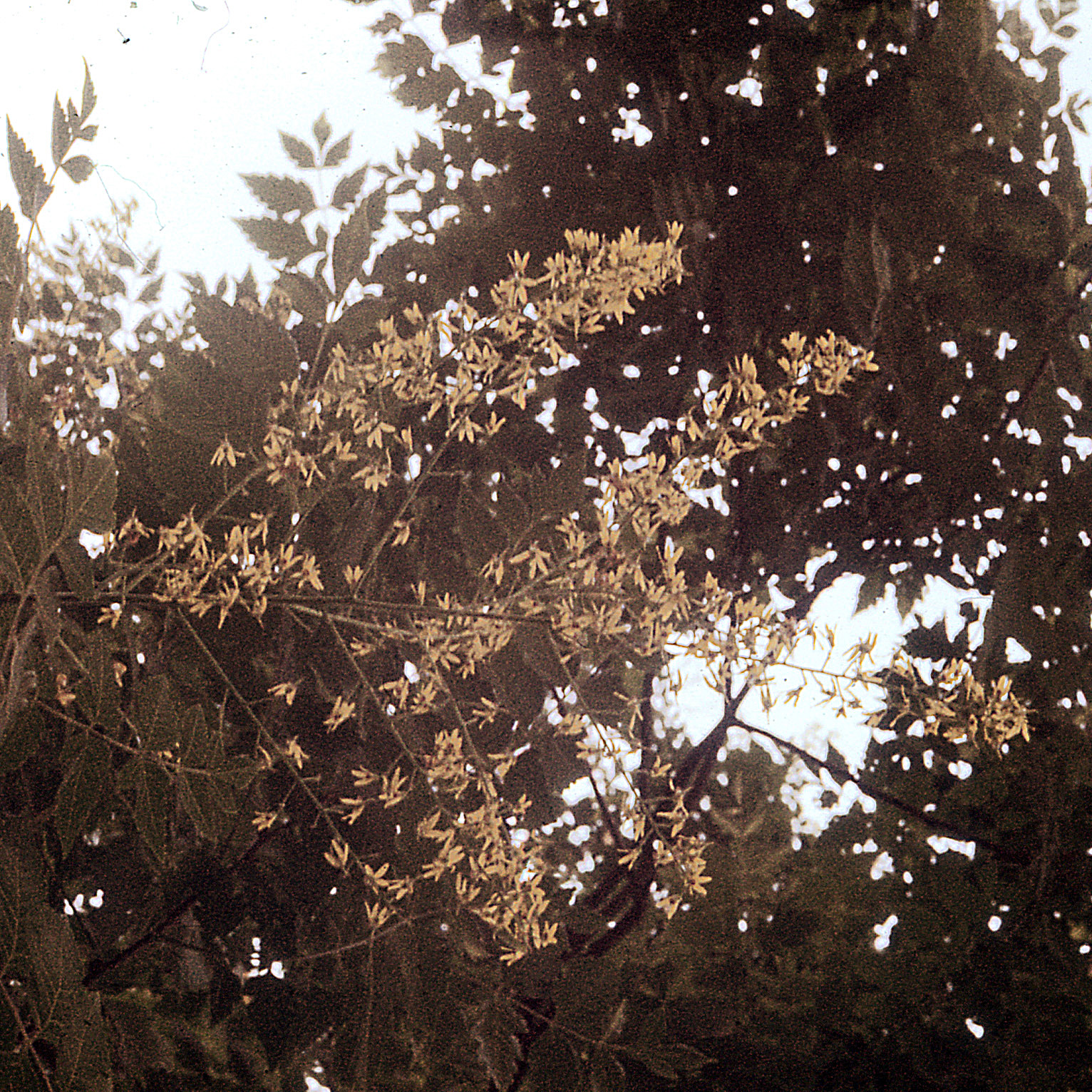 Koelreuteria paniculata inflorescens